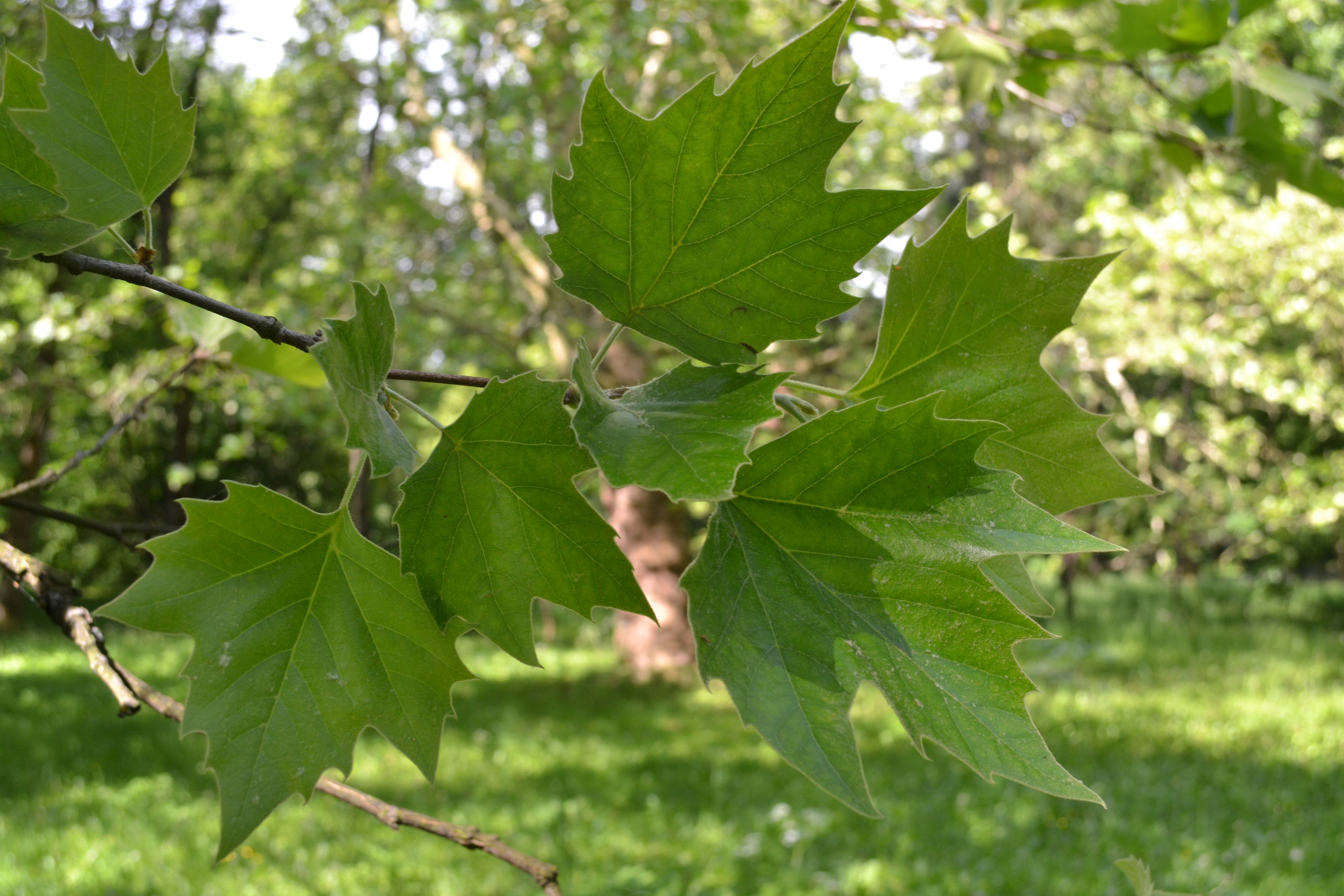 Platanus acerifolia - City Park in LučenecSlovenčina: Platan javorolistý - Mestský park Lučenec